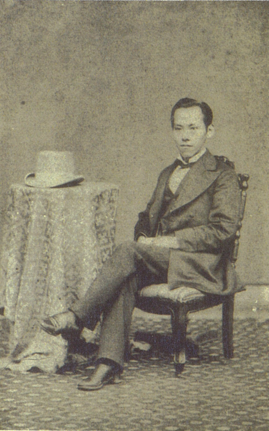 majima jyoichiro(1852-1912)